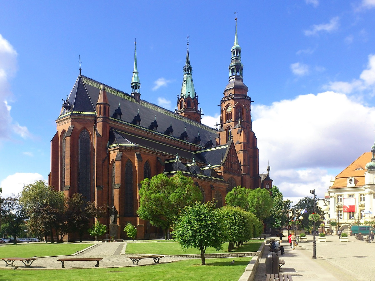 KathedraleSt. Peter und Paul, Legnica, Lower Silesian, Poland